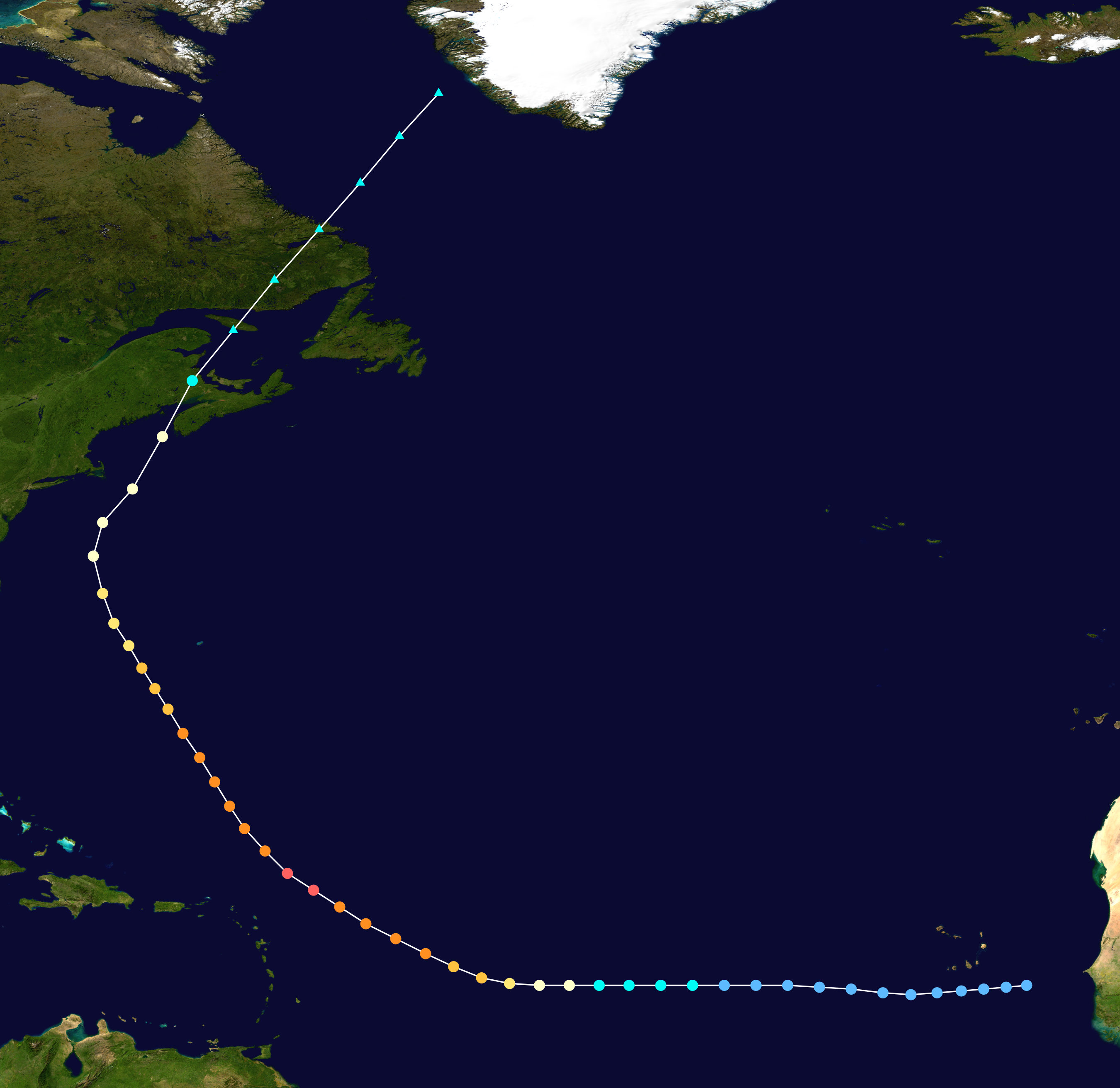 Track map of Hurricane Carol of the 1953 Atlantic hurricane season. The points show the location of the storm at 6-hour intervals. The colour represents the storm's maximum sustained wind speeds as classified in the Saffir–Simpson hurricane wind scale (see below), and the shape of the data points represent the nature of the storm, according to the legend below. Saffir–Simpson hurricane wind scale Tropical depression≤38 mph≤62 km/h Category 3111–129 mph178–208 km/h Tropical storm39–73 mph63–118 km/h Category 4130–156 mph209–251 km/h Category 174–95 mph119–153 km/h Category 5≥157 mph≥252 km/h Category 296–110 mph154–177 km/h Unknown Storm typeTropical cycloneSubtropical cycloneExtratropical cyclone / Remnant low / Tropical disturbance